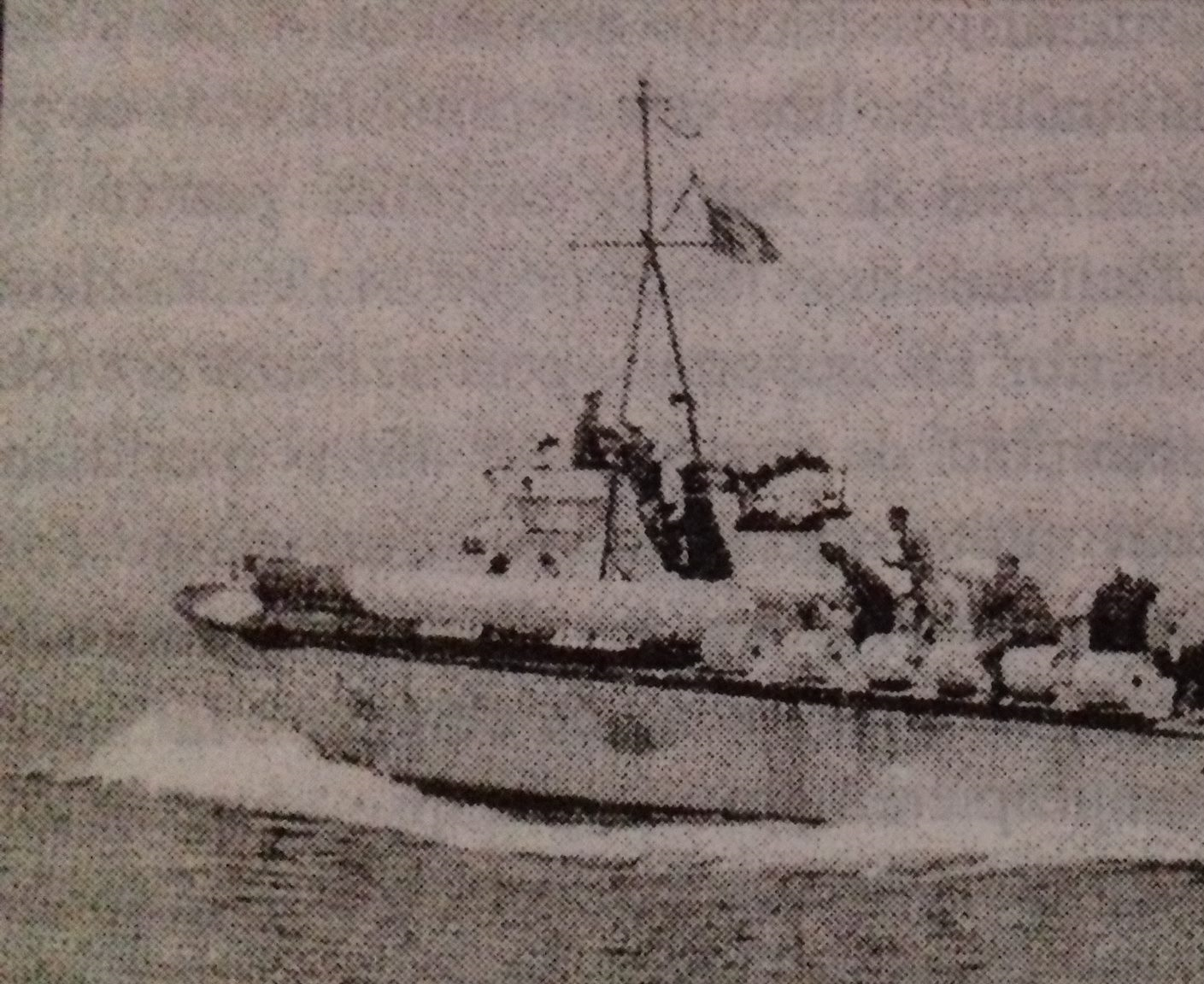 A Romanian MTB of the Vospers type in the Black Sea during World War II